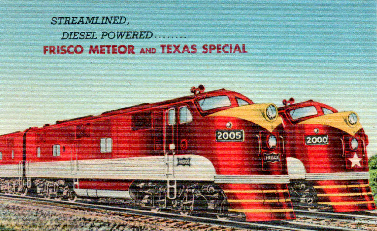 Postcard depiction of two popular Frisco Railroad passenger trains, The Meteor and The Texas Special. The Meteor is at left. Both trains were equipped with diesel locomotives and brand new line paint schemes in 1948.